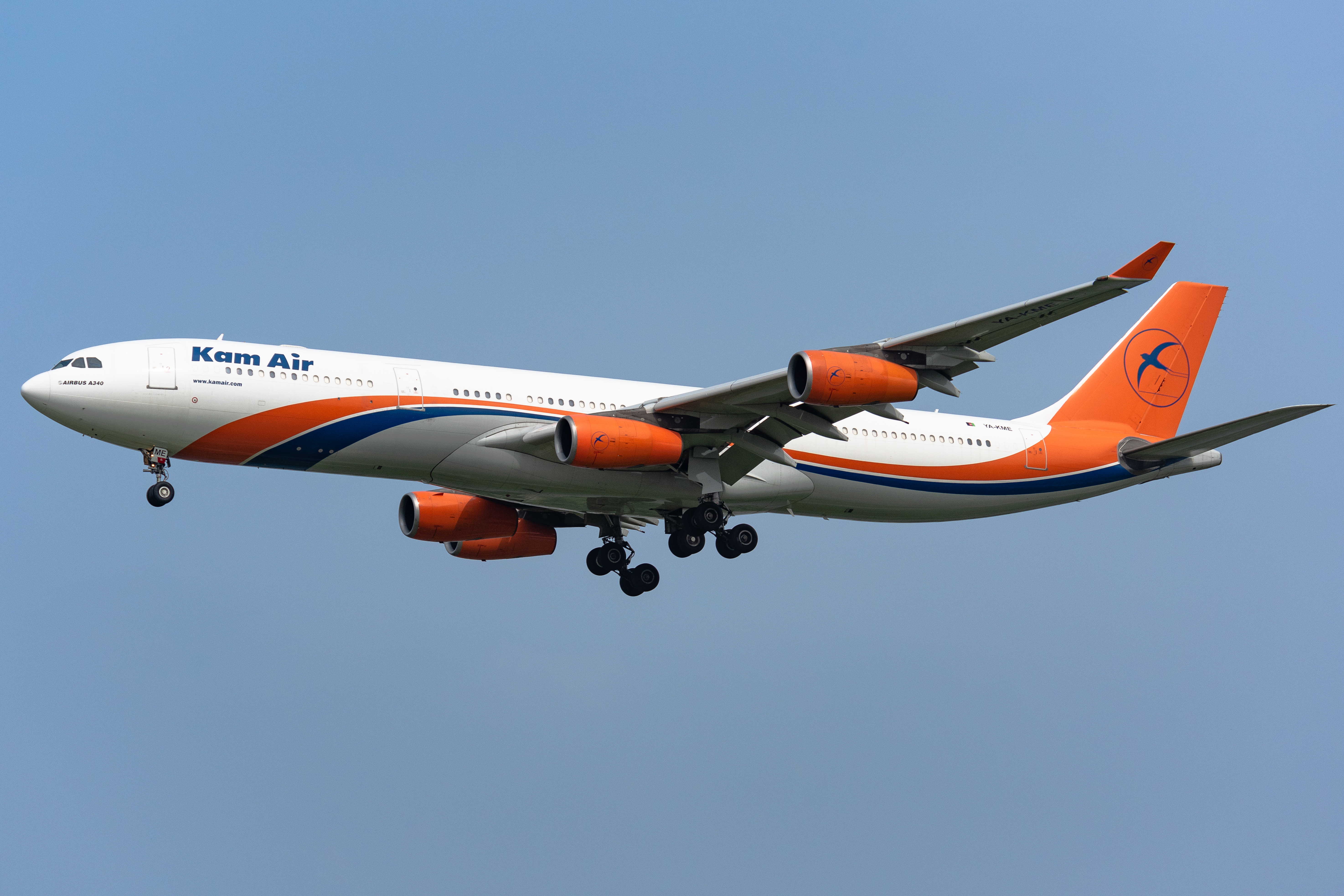 KMF3341 from Kabul, Afghanistan. First time to catch an Afghan aircraft, but its target is actually... Brasil!